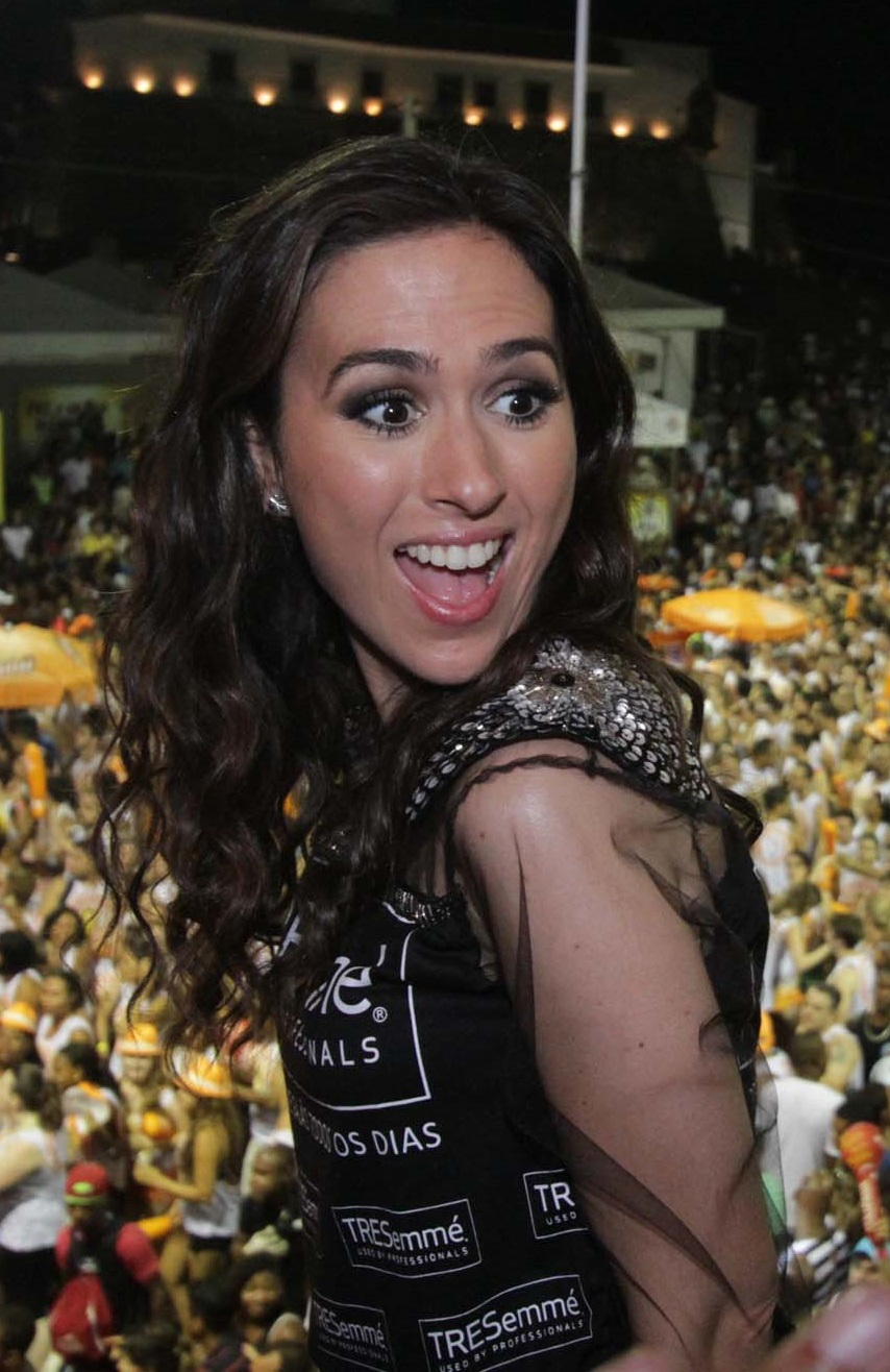 The Brazilian actress Tatá Werneck, during the Carnival (Salvador, Bahia, 2014)